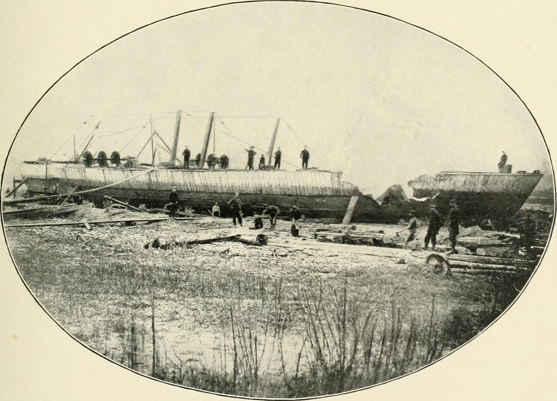 Title: The photographic history of the Civil War : thousands of scenes photographed 1861-65, with text by many special authorities Year: 1911 (1910s) Authors: Miller, Francis Trevelyan, 1877-1959 Lanier, Robert S. (Robert Sampson), 1880- Subjects: United States -- History Civil War, 1861-1865 Pictorial works United States -- History Civil War, 1861-1865 Publisher: New York : Review of Reviews Co. Text Appearing Before Image: II ORGANIZATION OF THE CONFEDERATE NAVY Text Appearing After Image: 1863—BUILDING THE INDIANOLA, SOON TO BE CAPTURED BY CONFEDERATES THE INDIANOLA, ONE OF THE MOST FORMIDABLE IRONCLADS ON THE MISSISSIPPI RIVER, WAS CAP-TURED BY CONFEDERATE TROOPS ON FEBRUARY 24, 1803. SUCH WAS THE PAUCITY OF SHIPYARDSAT THE SOUTH, AND THE SCARCITY OF MATERIALS AND SKILLED MECHANICS, THAT THE CAPTURE OFA FEDERAL VESSEL OF ANY KIND WAS AN EVENT FOR GREAT REJOICING IN THE CONFEDERATE NAVY